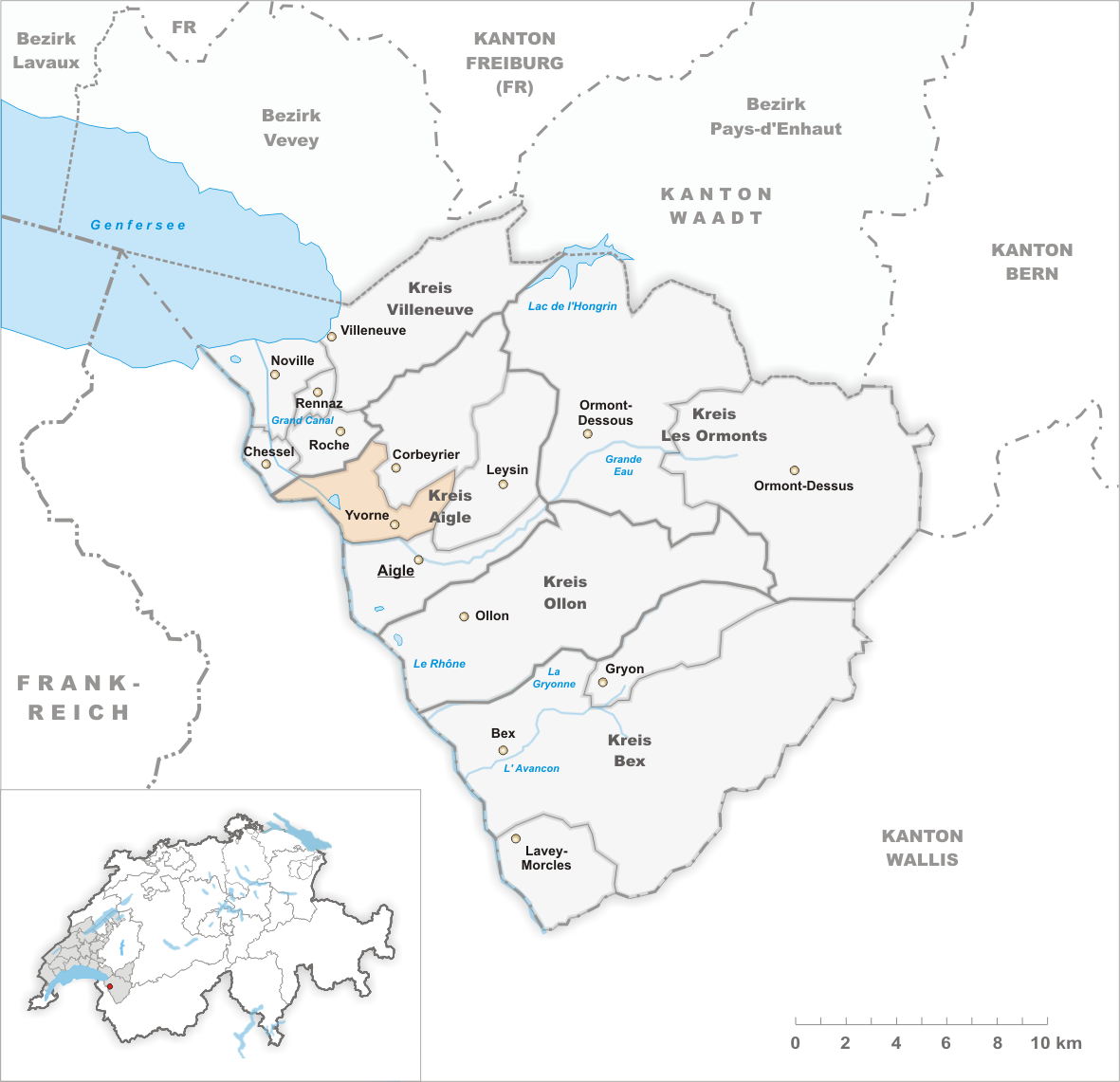 Municipality Yvorne